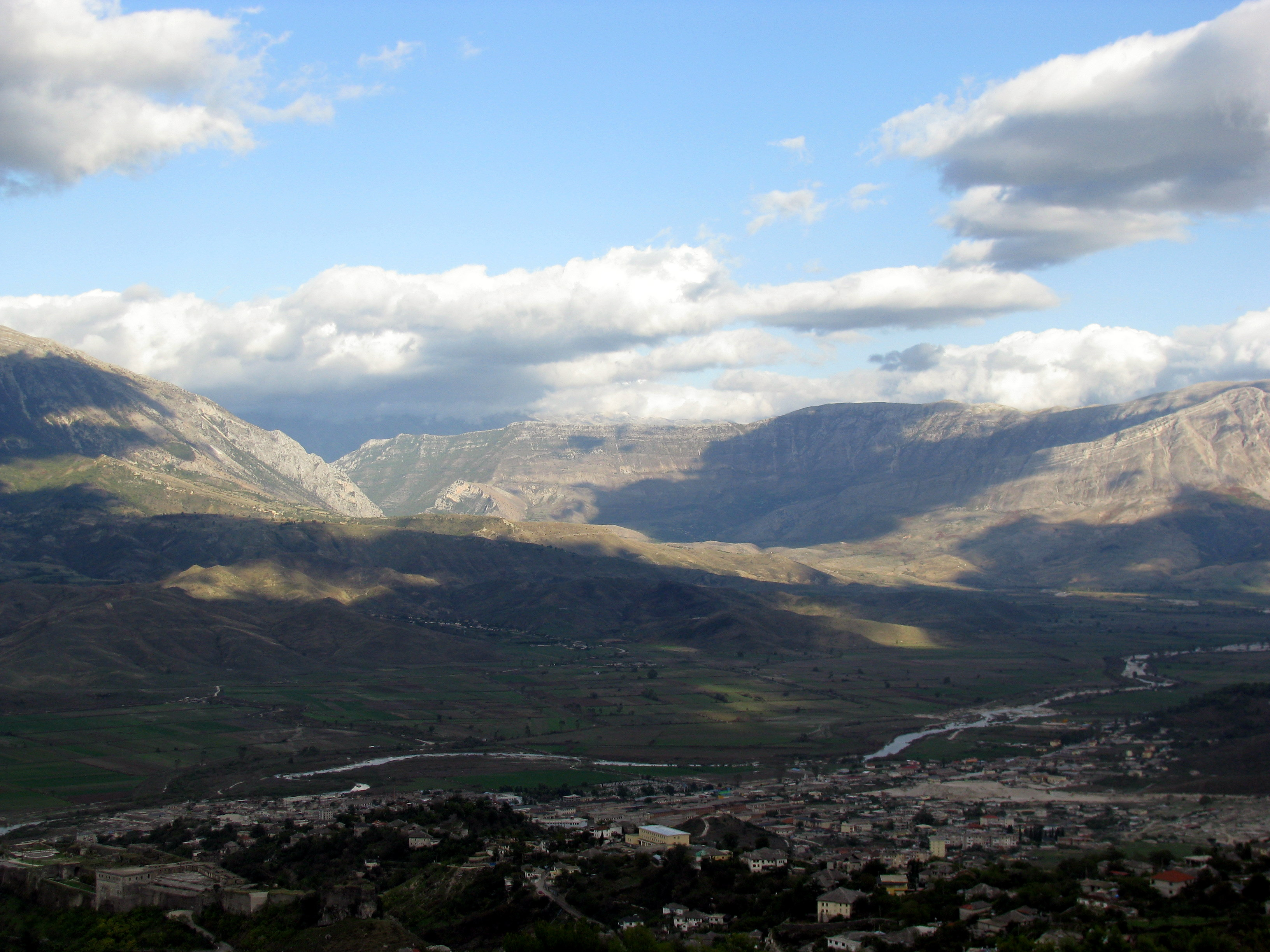 Valley of the Drino near Gjirokastër, Southern Albania